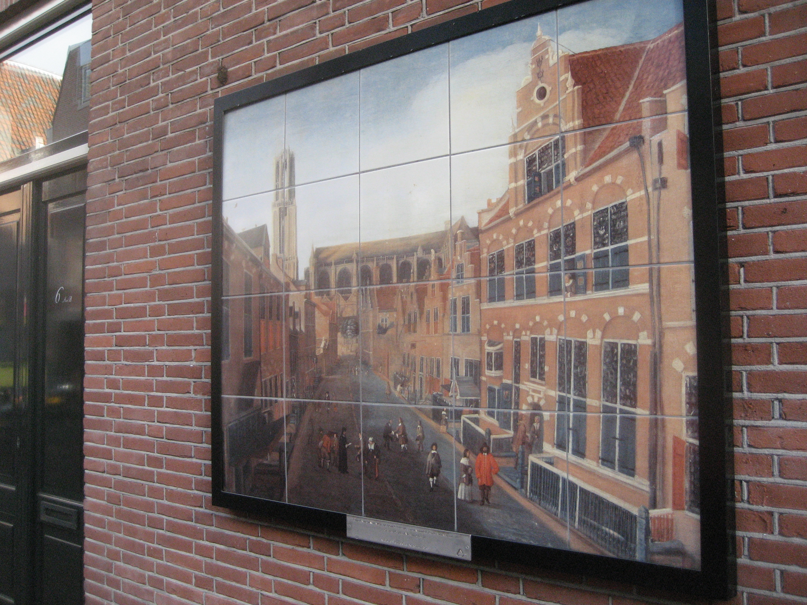 Decorated tiles: a painting of Utrecht (View on the Dom from the Korte Nieuwstraat) by Folpert van Ouden Allen. Original painting in Centraal Museum, Utrecht.